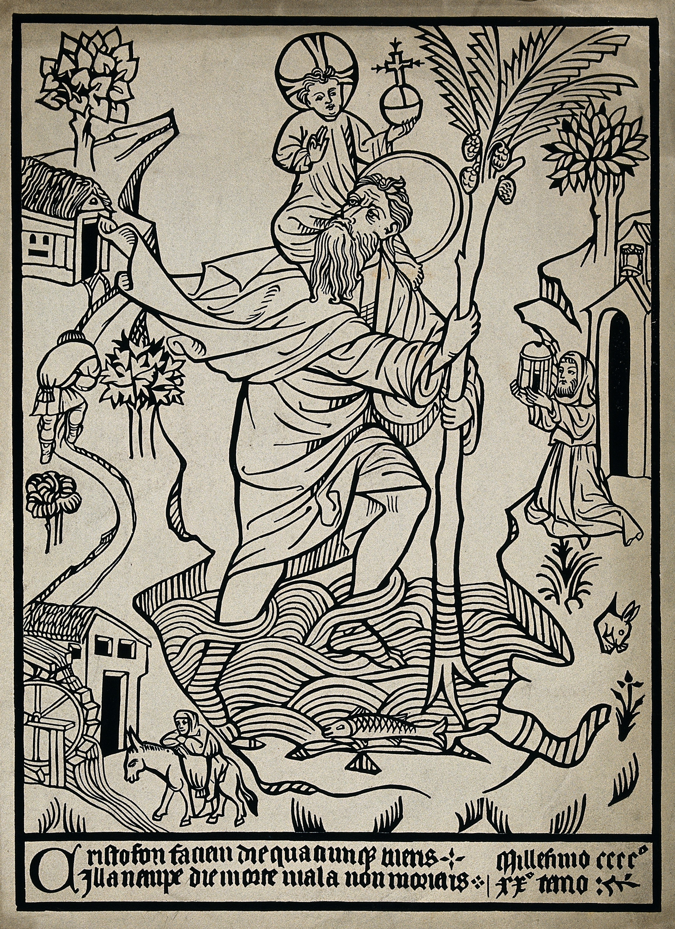 Saint Christopher. Woodcut. Iconographic Collections